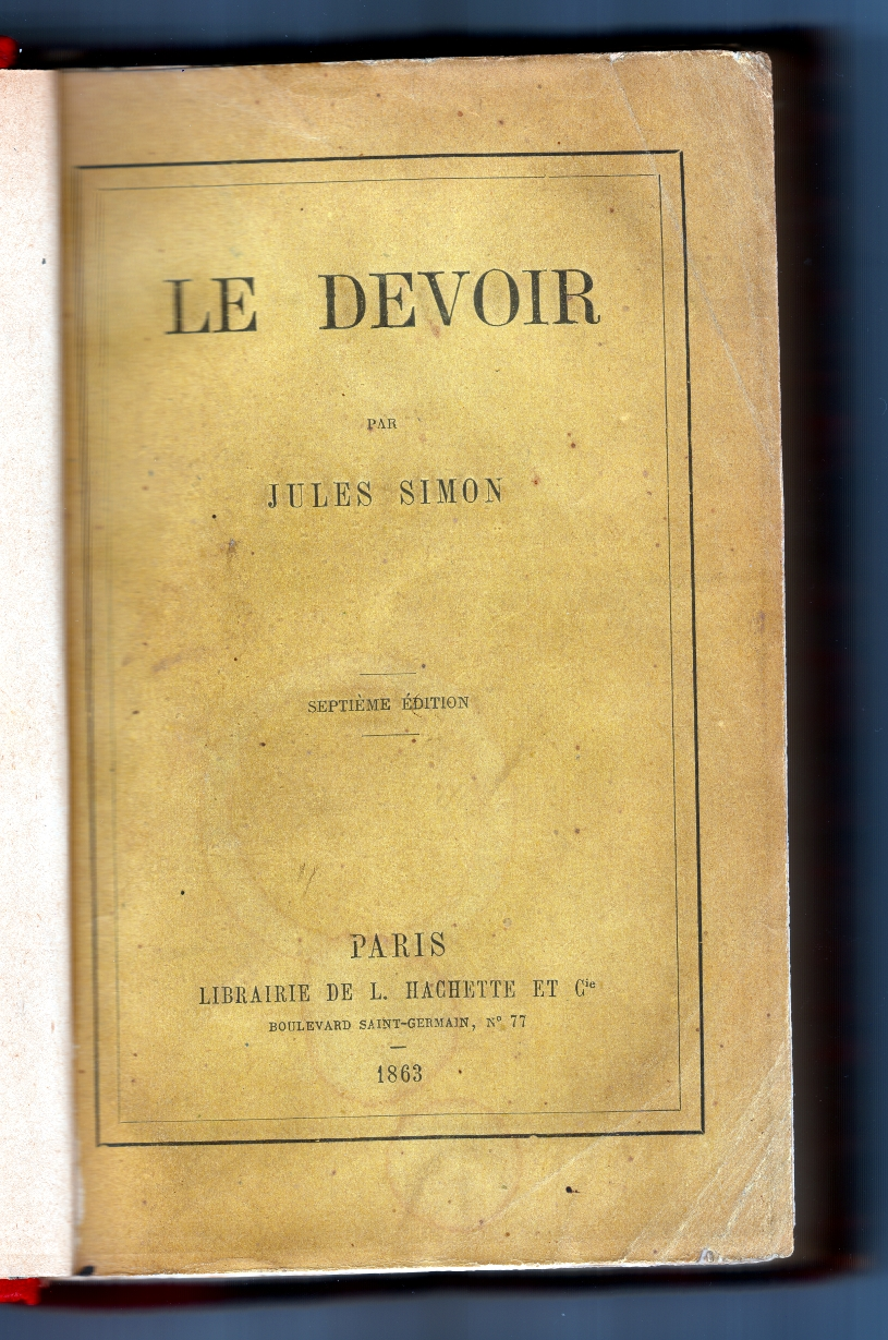 Front page of seventh edition of "Le Devoir", by Jules Simon, 1863.